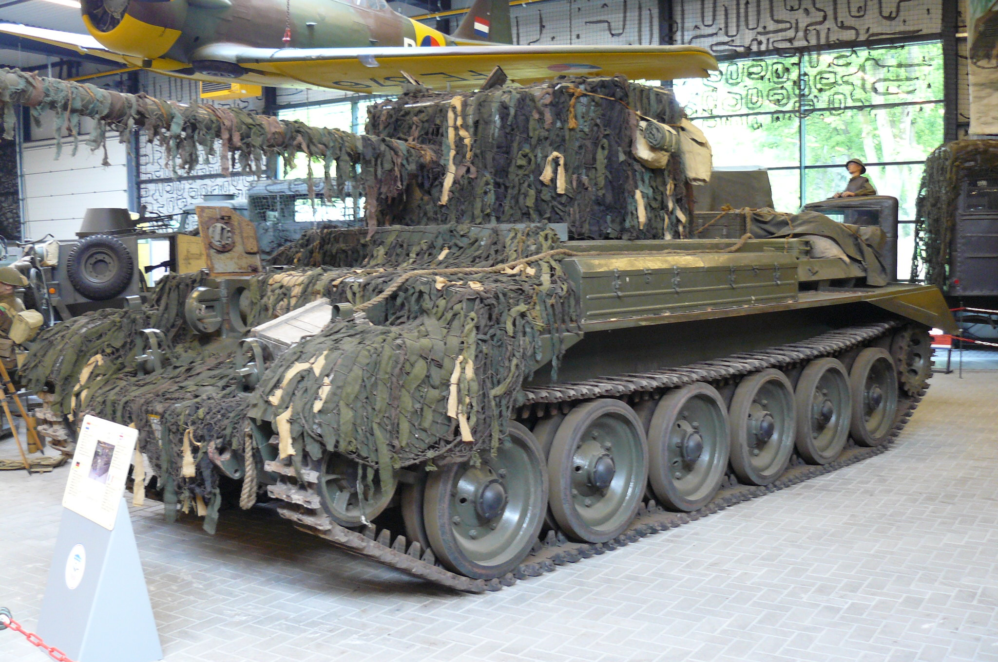 A30 Challenger as seen in the Liberty Park, Overloon, the Netherlands. Front right photo taken on 20 May 2012.